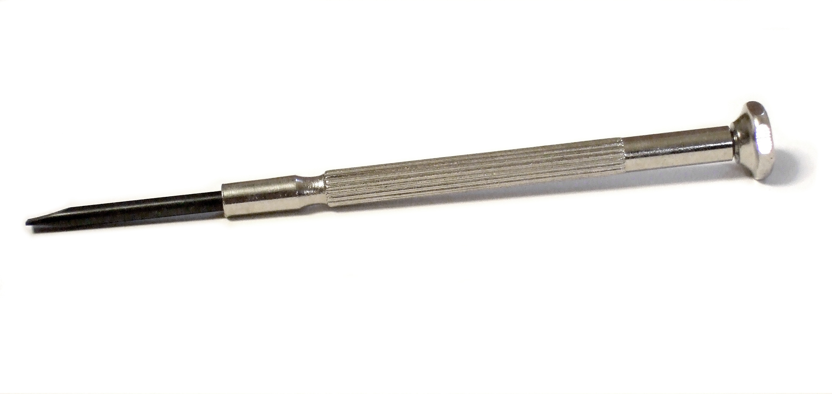 Jeweler's screwdriver. Photo taken in Tokyo Japan.